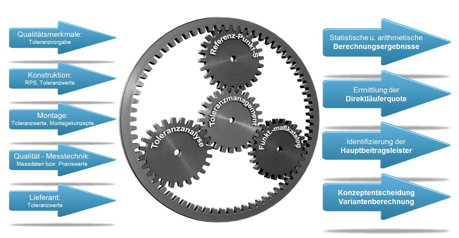 system cycle of Dimensional-Management - the Dimensional Management is illustrated here as a planetary gear with input variables, output variables, and Dimensional Management cycle as a manufacturing process.